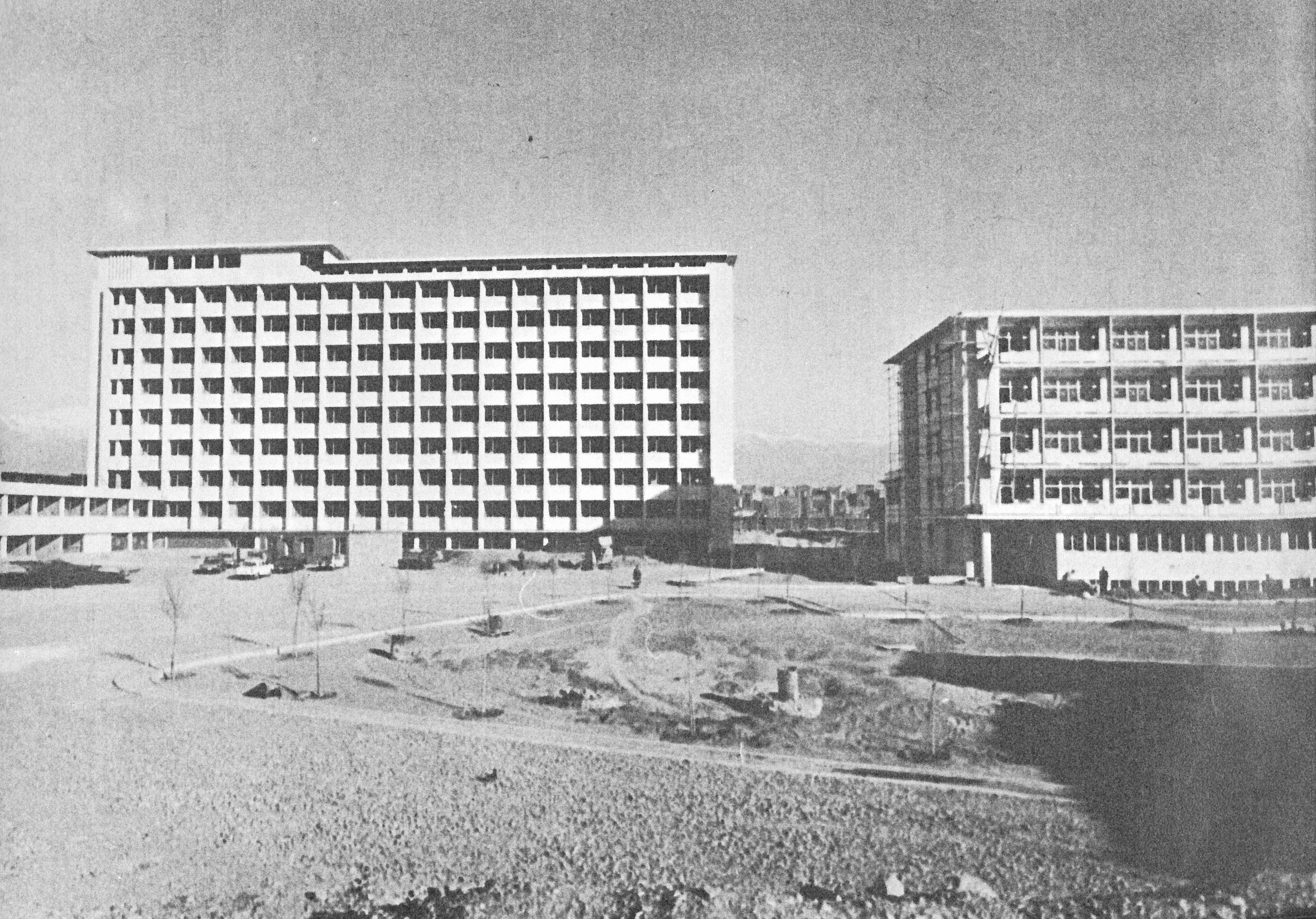 Zayeshgah (birth clinic), Tehran, Nezamabad, 1.000 beds